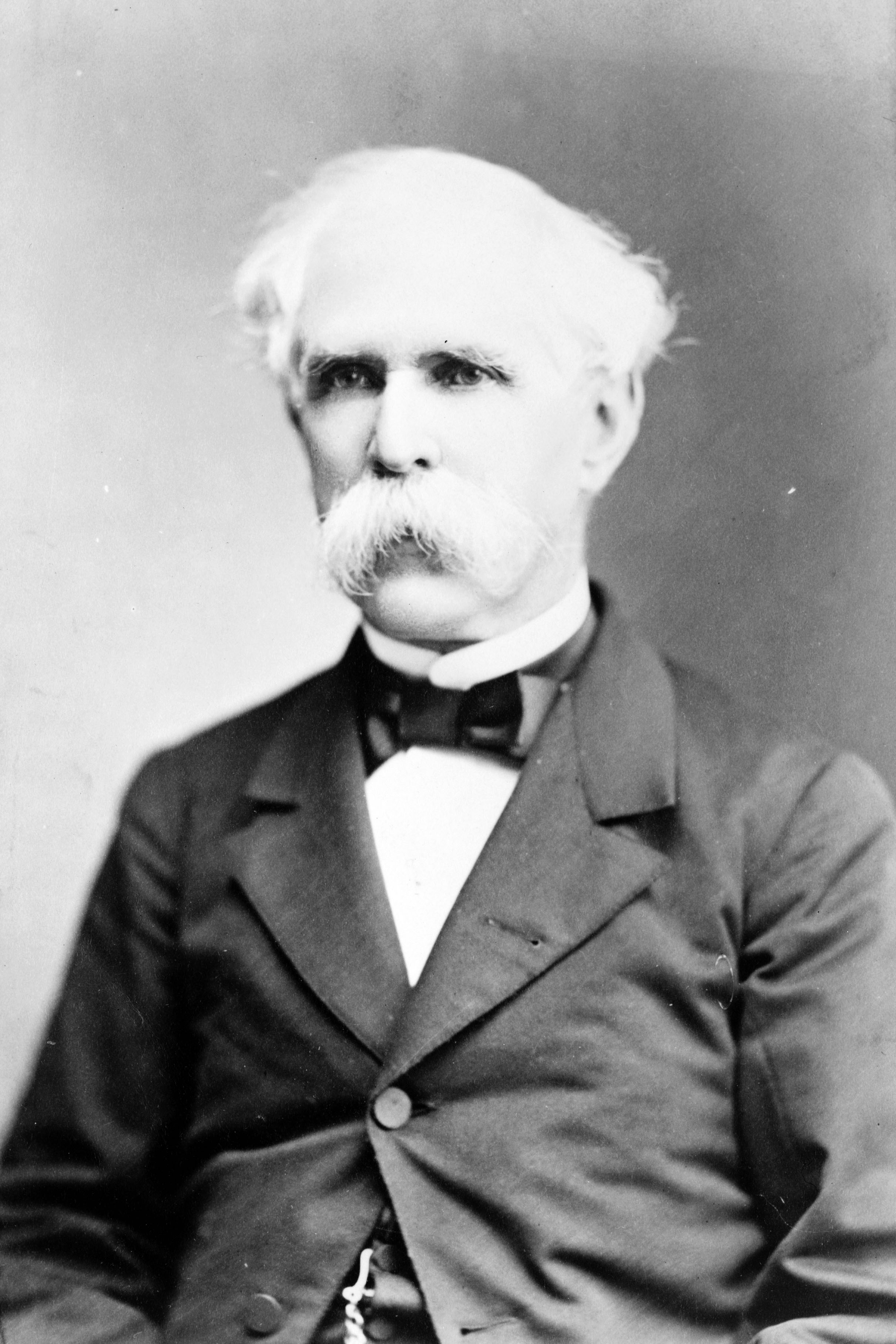 Horace Capron (1804–1885), Half-length portrait, seated, facing slightly left, brevet Brigadier General, Colonel of the Illinois 14th Cavalry during the American Civil War, later United States Commissioner for Agriculture and subsequently advisor to Japan's Hokkaido Development Commission.